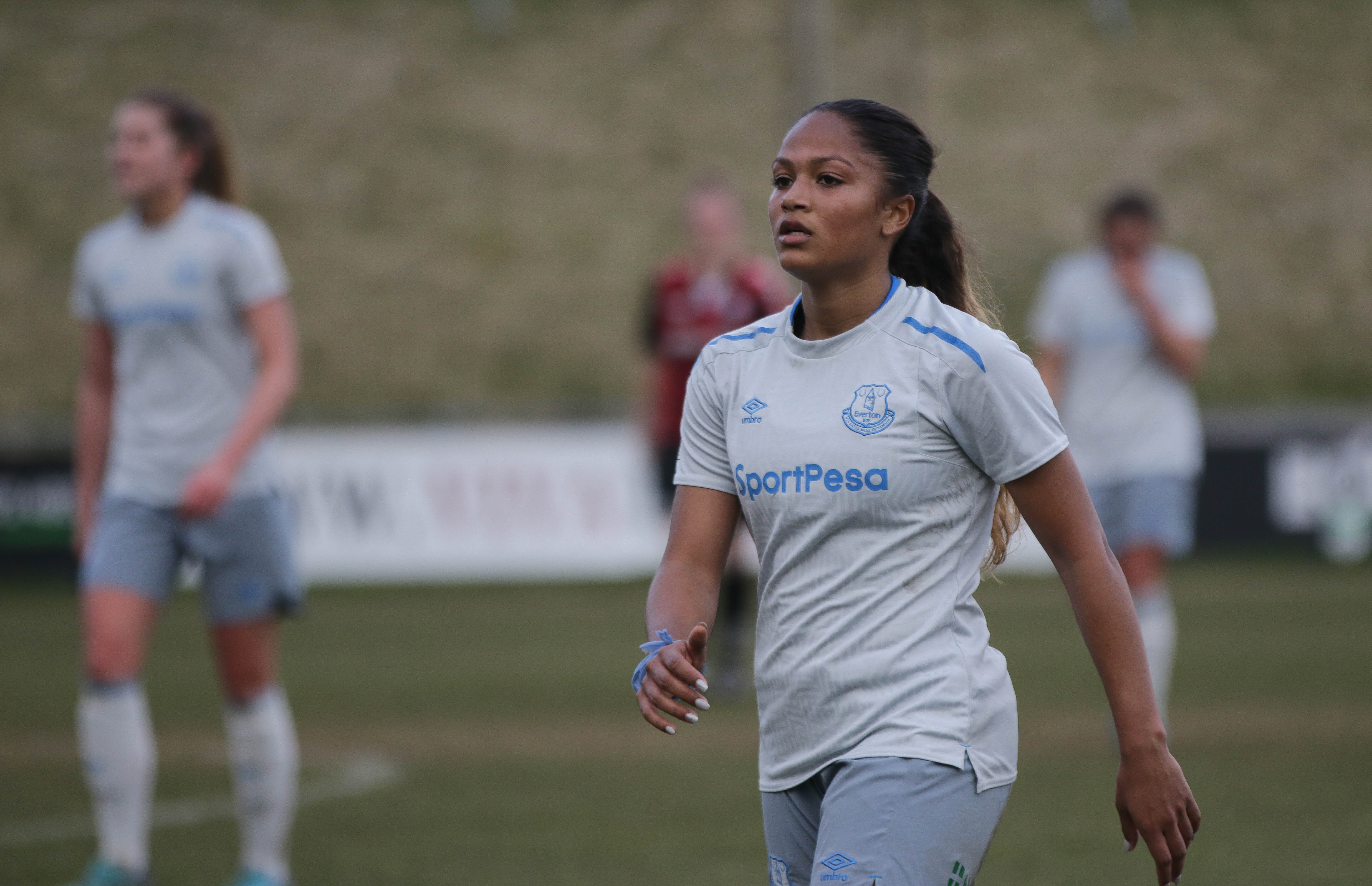 Lewes FC Women 0 Everton Ladies 6 FAC 6th Rd 18 02 2018-755.jpg